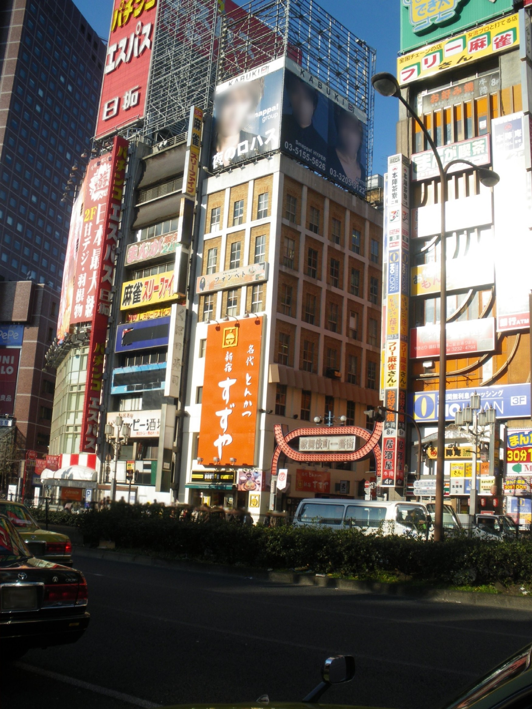 A photo of the entrance of Kabukicho Ichibangai(first street).Kabukicho(Shunjuku,Tokyo) is the most famous amusement area in Japan.